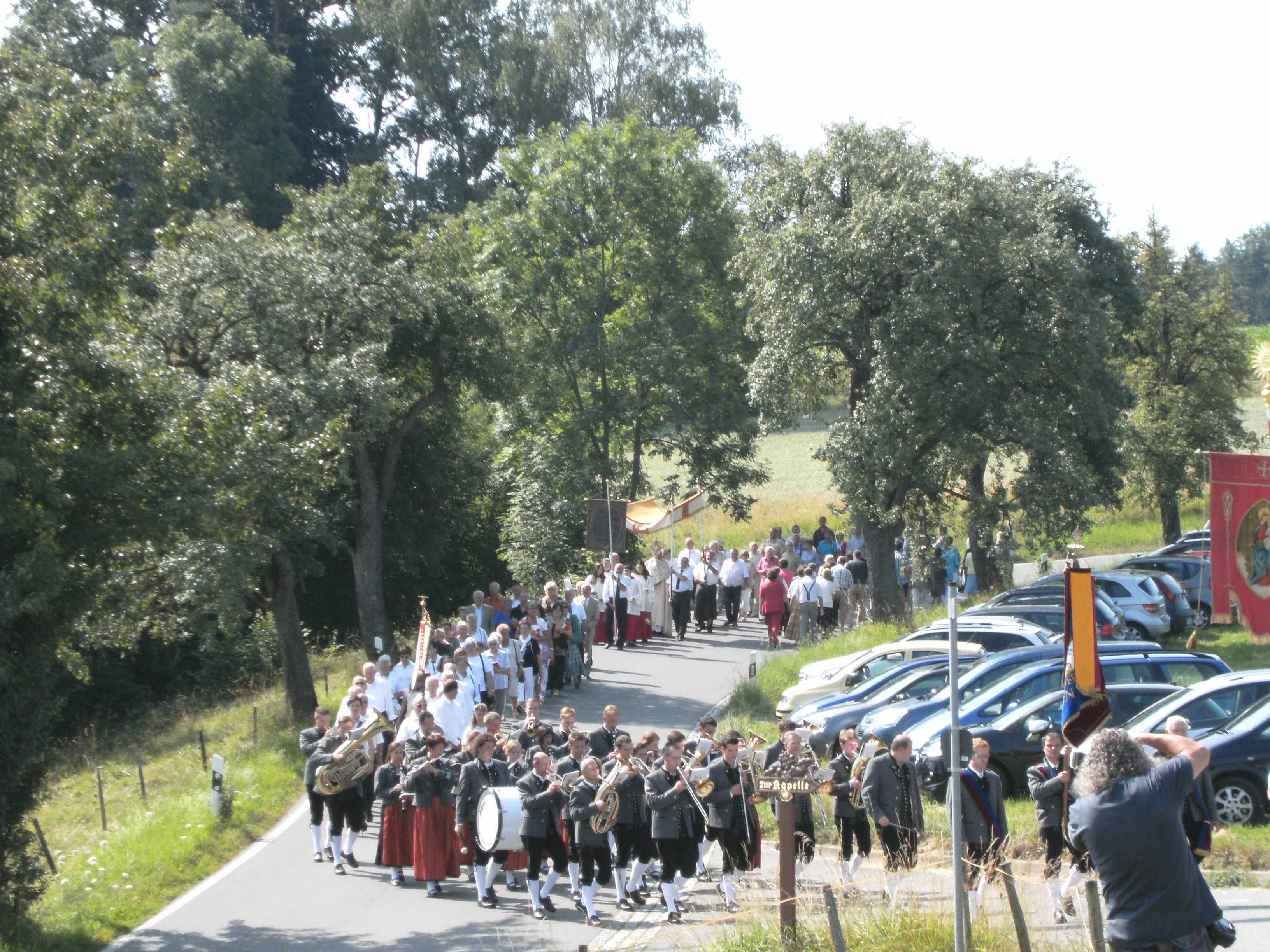 Procession at pilgrimage church Baitenhausen to celebrate the fiest of the Virgin Mary (Maria vom Berg Karmel) coming back towards church.